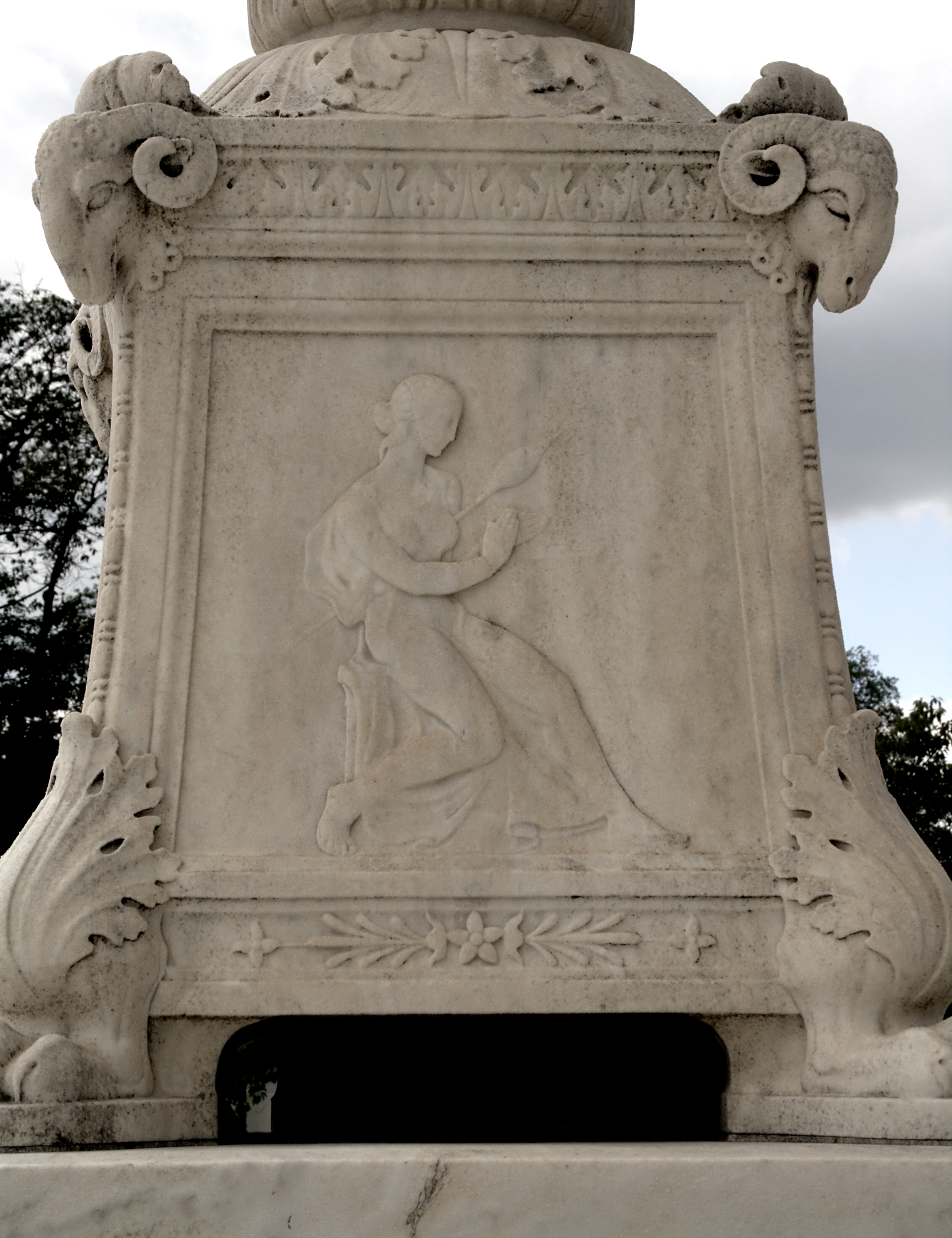 Bas relief of Clotho spinning the thread of human life. This relief appears on the base of a lampstand in front of the Supreme Court of the United States.